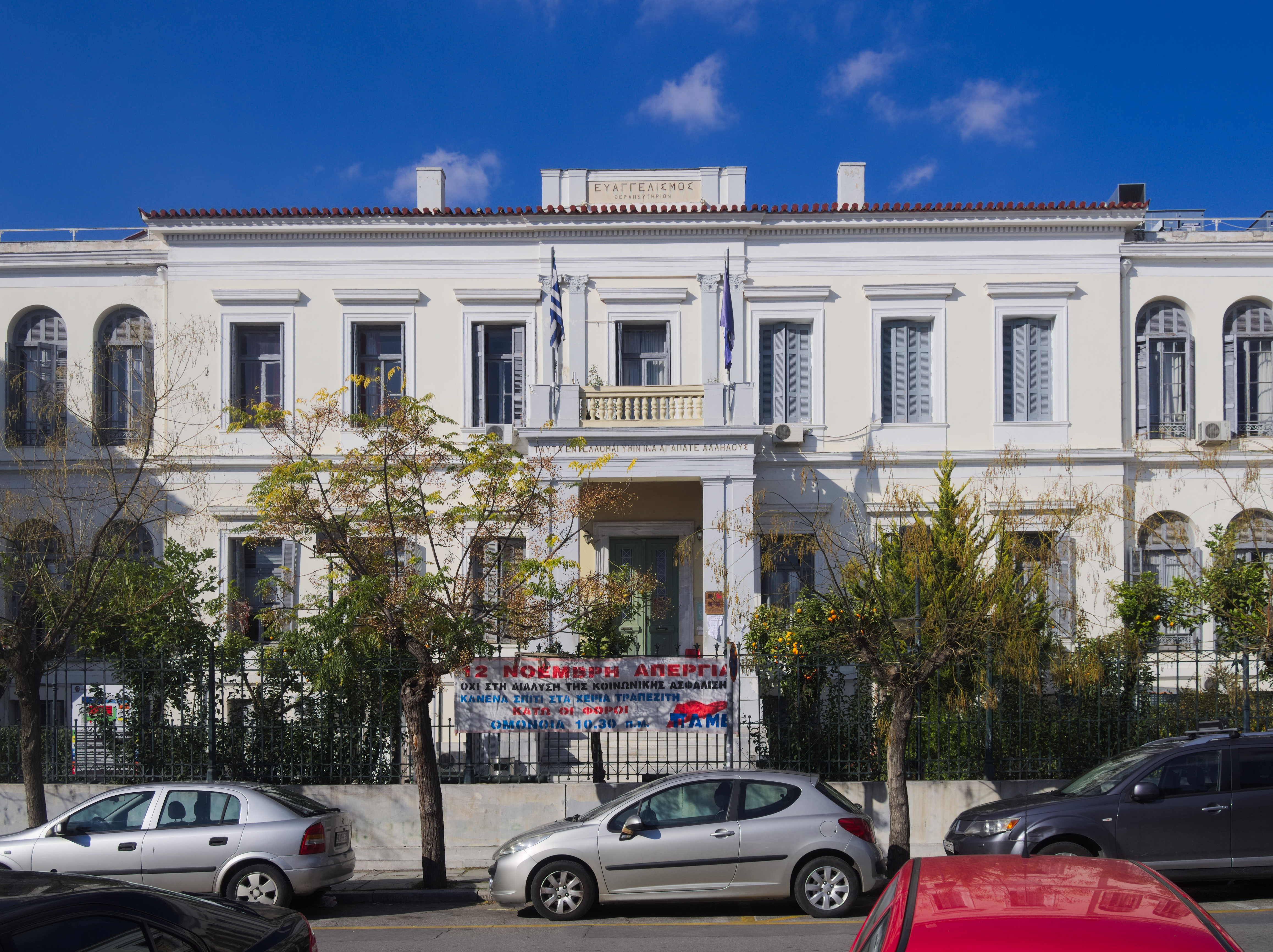 The old building of Evaggelismos hospital, built in 1881-4. After some more additions, the hospital is largest in Greece.